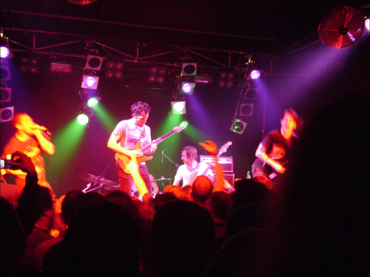 Dillinger Escape Plan 21-05-08